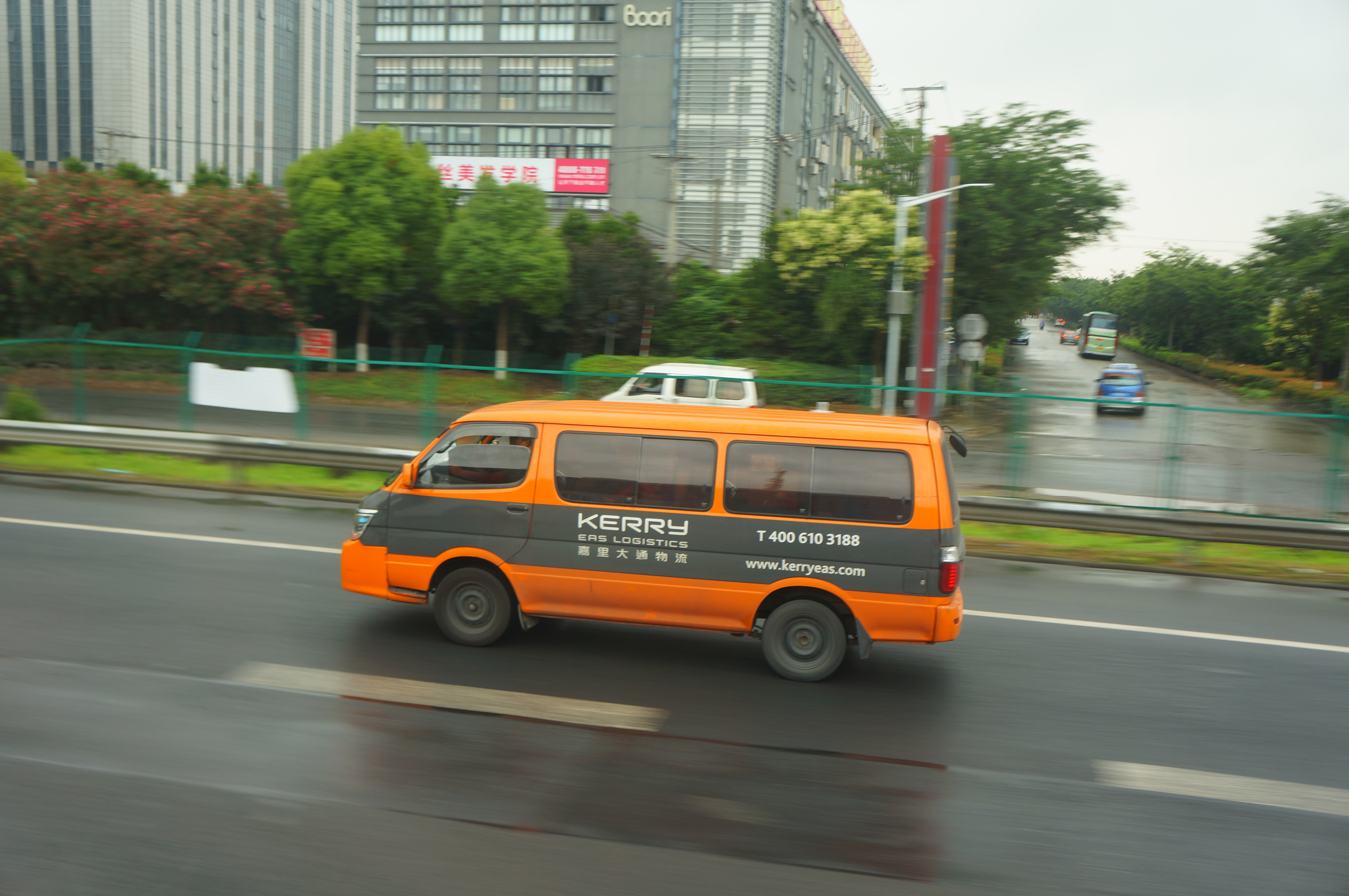 201706 Kerryeas Van in Shanghai